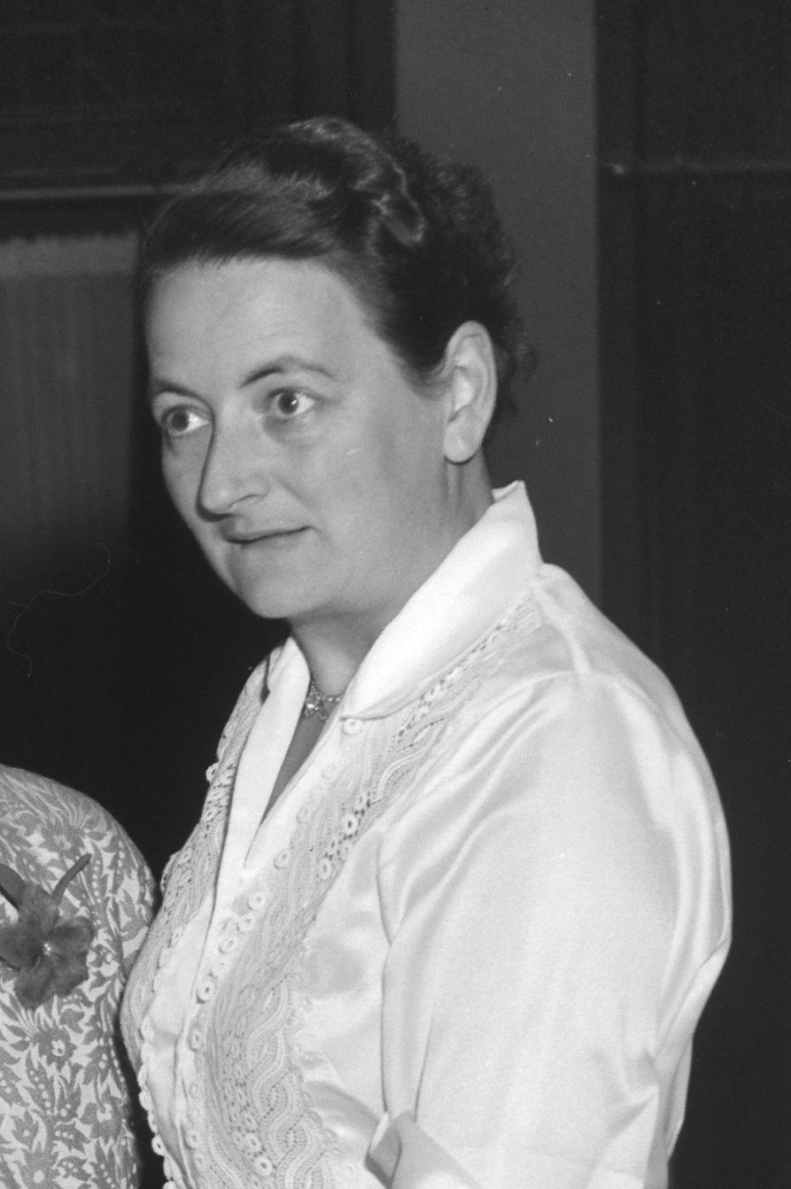 Opening Dames Danlon schaaktoernooi in Amsterdam, v.l.n.r. T. Roodzant, F. Heemskerk, I. Larsen , L. Timofeeva, E. Rinder, R. Bruce